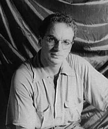 Clifford Odets photographed by Carl Van Vechten Clifford Odets